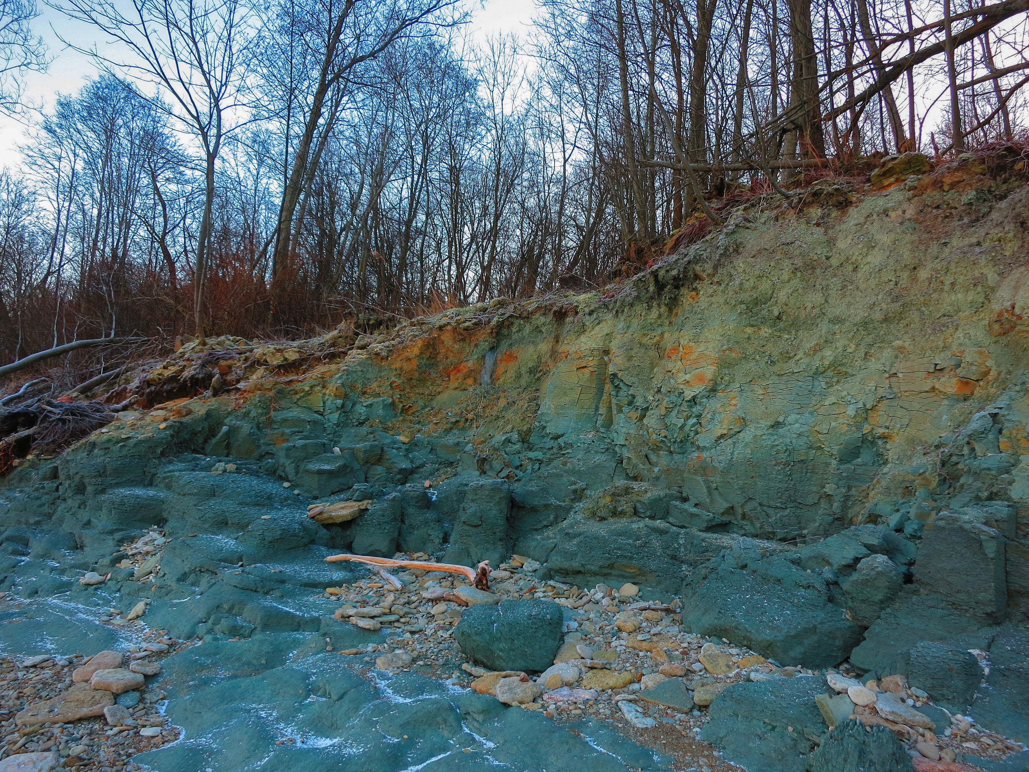 Cambrian blue clay outcrop at beach of Gulf of Finland in Voka (Ida-Viru County, Estonia)